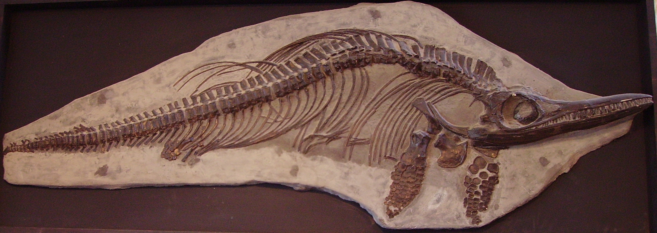 Photographer: User:Ballista from Charmouth Heritage Coast Centre, Charmouth, England